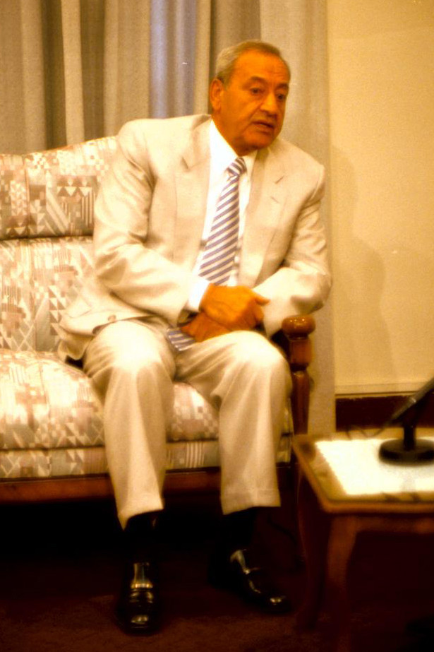 Nabih Berri meet Ali Khamenei - August 3, 2002